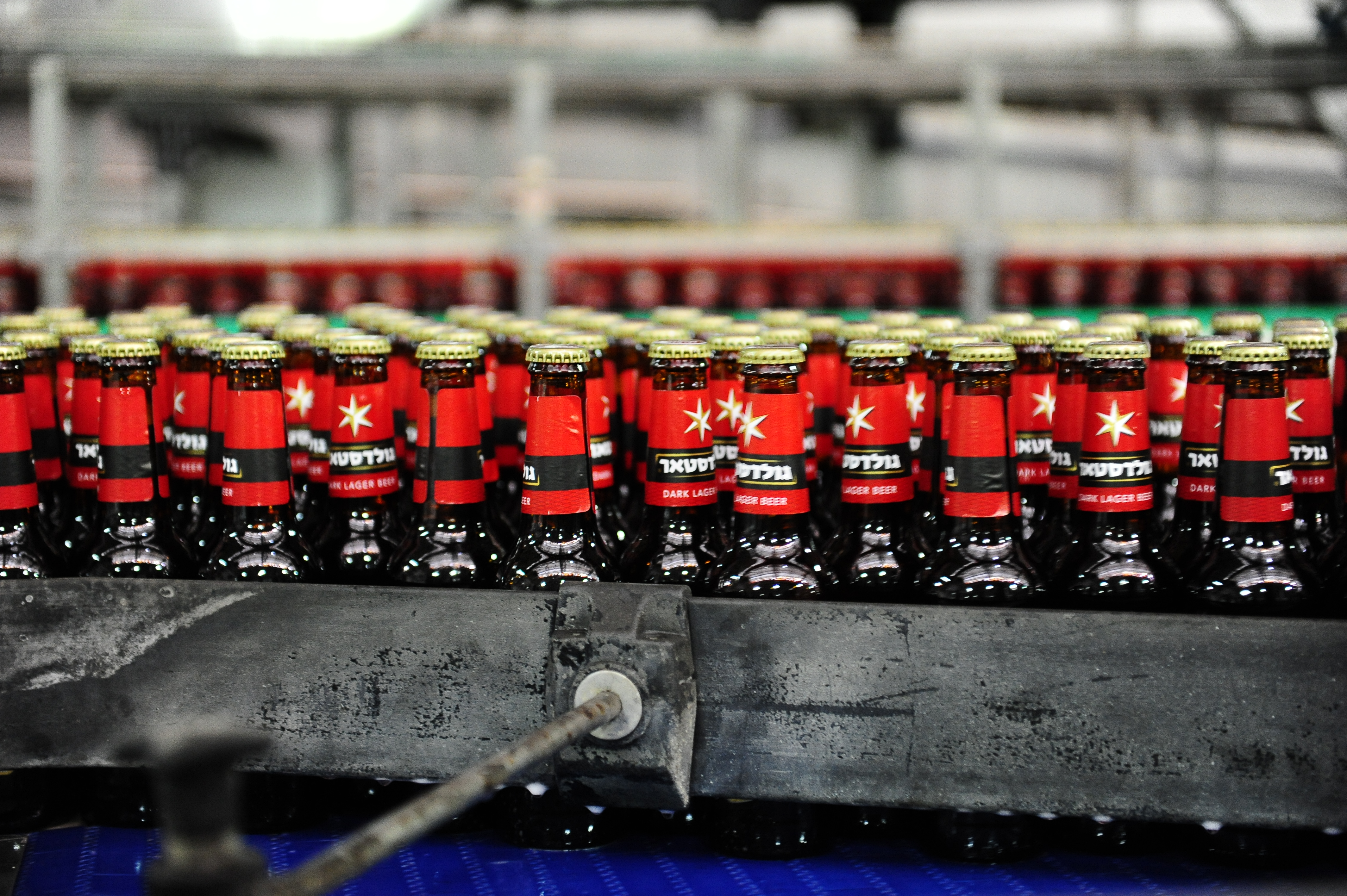 Goldstar beer bottles on the production line in the Tempo factory, Netanya, Israel